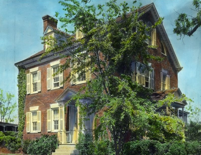 Title ["Smallwood-Ward" house, 93 East Front Street, New Bern, Craven County, North Carolina. Entrance] Contributor Names Johnston, Frances Benjamin, 1864-1952, photographer Created / Published [ca. 1930] Subject Headings - Houses--North Carolina--New Bern--1930 - Brick buildings--North Carolina--New Bern--1930 Format Headings Lantern slides--Hand-colored--1930. Notes - Site History. House Architecture: Two-story brick house, built circa 1812. Other: Also known as the "Eli Smallwood" house. Today: Extant and listed on the National Register of Historic Places. - On slide (handwritten): "Smallwood. Ward. New Bern, NC." and "Frances Benjamin Johnston." Also, paper mask is a grid line. - Slide for lecturing on "Tales Old Houses Tell." - Title, date, and subject information provided by Sam Watters, 2011. - The Carnegie Survey of the Architecture of the South collection (Library of Congress) includes this image and other views of the house including interiors in black and white. Search by the name of the house. - Forms part of: Garden and historic house lecture series in the Frances Benjamin Johnston Collection (Library of Congress). - Published in Gardens for a Beautiful America / Sam Watters. New York: Acanthus Press, 2012. Plate 240. - Formerly in Box 35. Medium 1 photograph : glass lantern slide, hand colored ; 3.25 x 4 in. Call Number/Physical Location LC-J717-X106- 73 [P&P] Repository Library of Congress Prints and Photographs Division Washington, D.C. 20540 USA Digital Id ppmsca 16643 //hdl.loc.gov/loc.pnp/ppmsca.16643 Library of Congress Control Number 2008675943 Reproduction Number LC-DIG-ppmsca-16643 (digital file from original item) Rights Advisory No known restrictions on publication. Online Format image Description 1 photograph : glass lantern slide, hand colored ; 3.25 x 4 in. LCCN Permalink